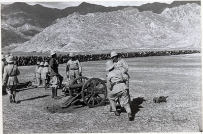 Soldiers demonstrating military drill at a review of troops held in September 1936 at which Brigadier Philip Neame inspected the Tibetan Army